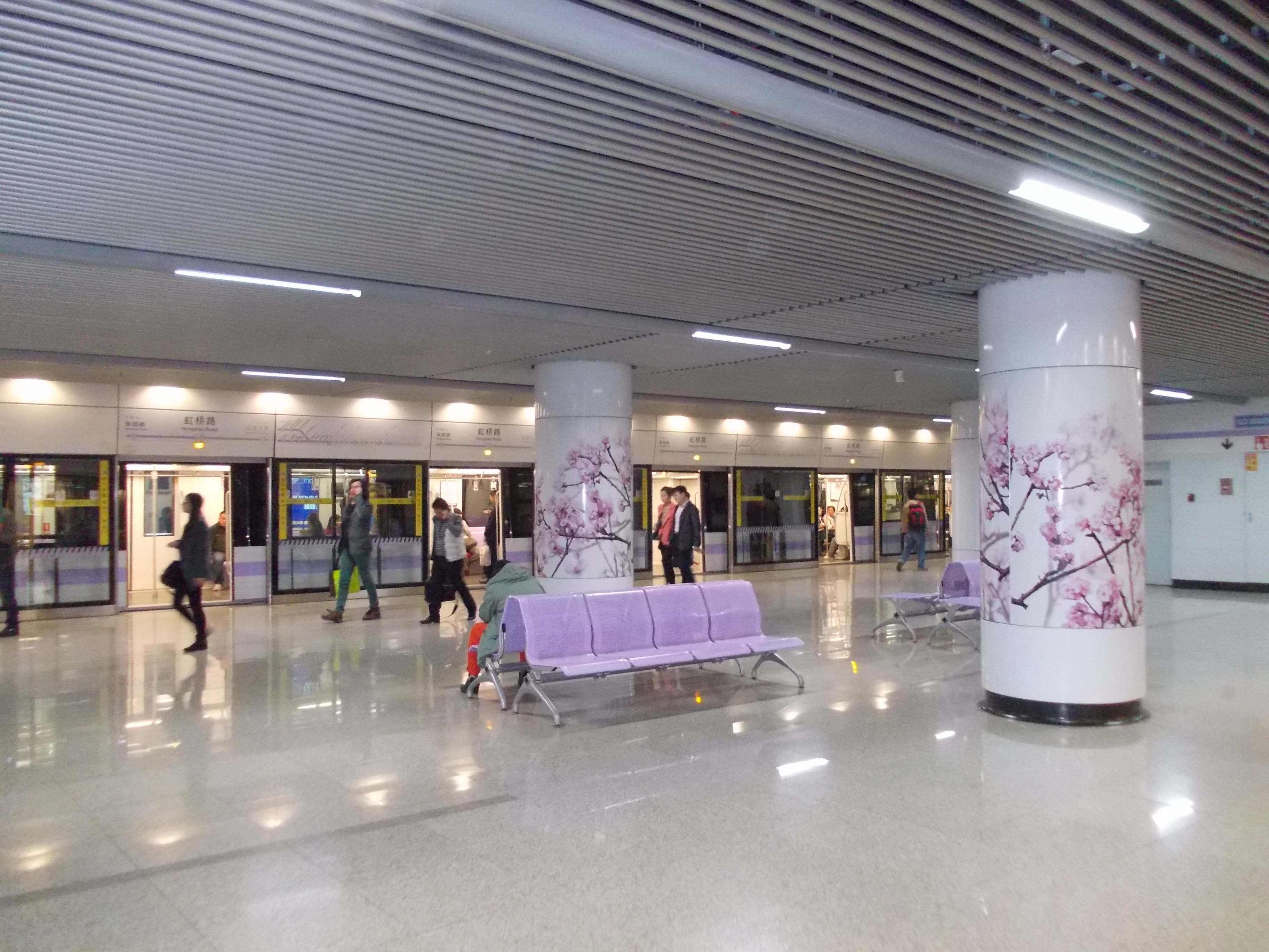 Shanghai Metro - Line 10 - Hongqiao Road